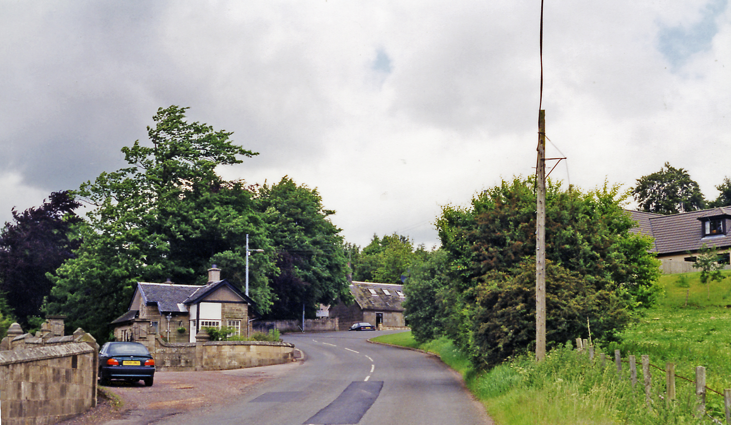 Site of Auchenheath station, 1998. View NW on the A744 where the ex-Caledonian (Glasgow) - Hamilton (to left) - Brocketsbrae (to right) - Coalburn line had crossed. The station was on the left and closed with the line from Hamilton to passengers from 1/10/51, to goods from 21/9/53. [Precise location of station here is uncertain].